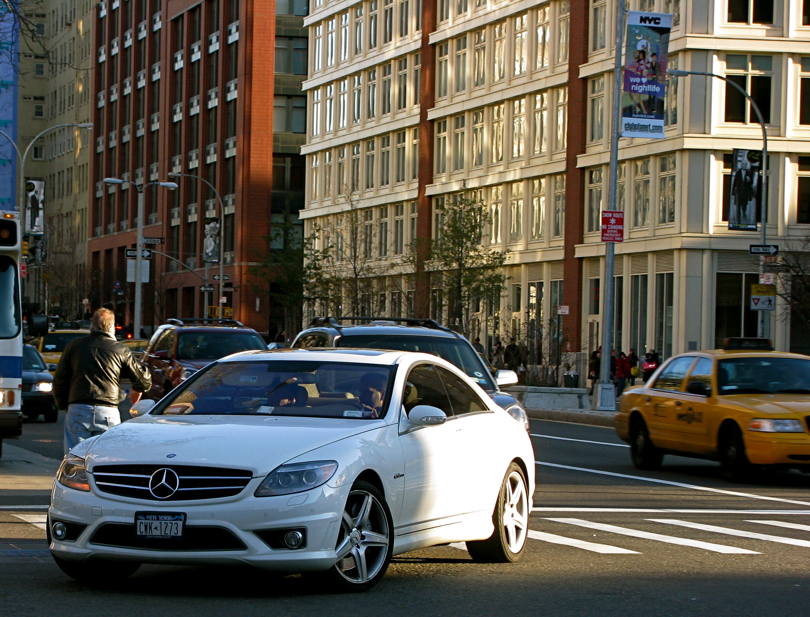 Rather liked the shot.